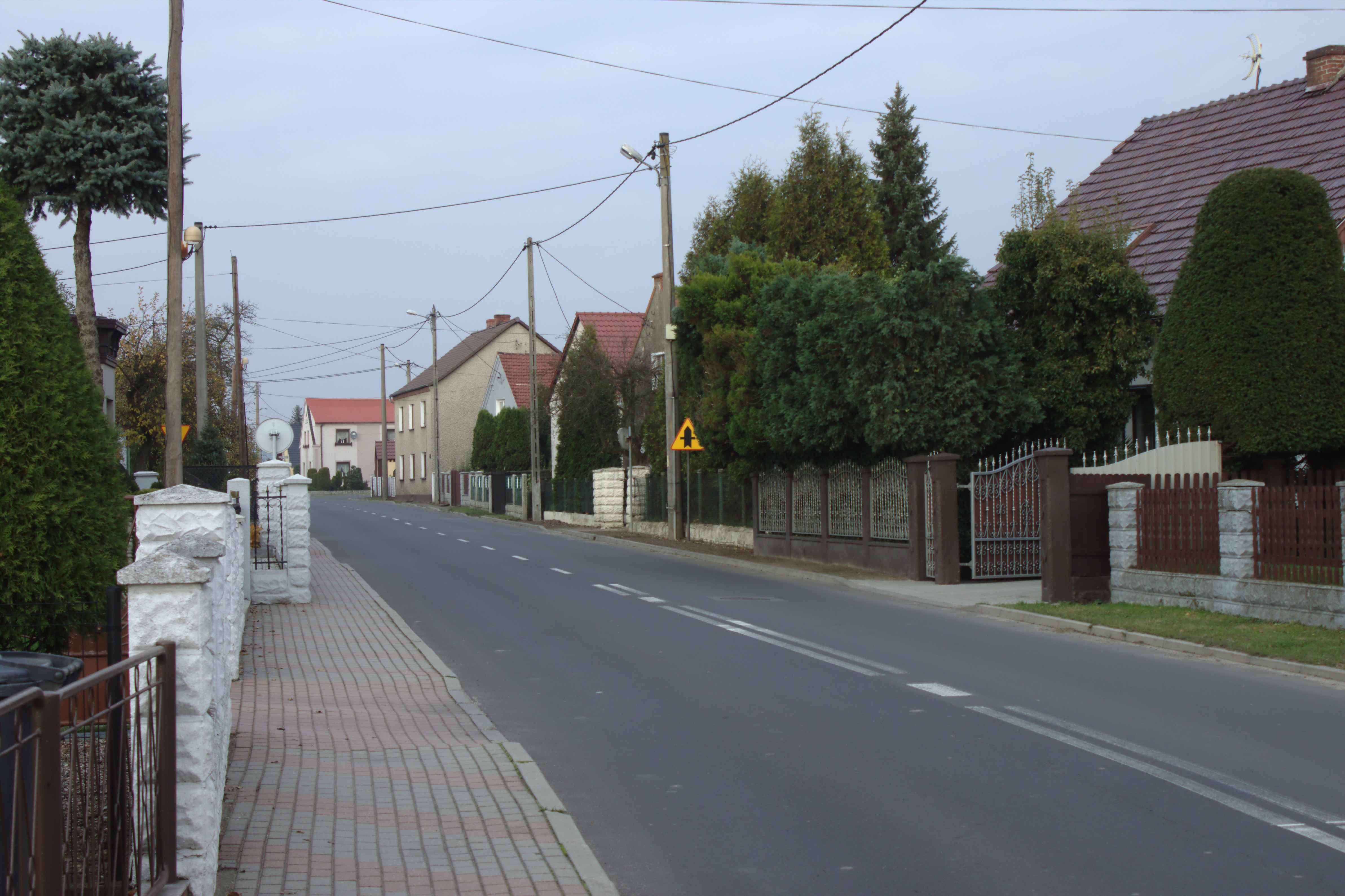 Main road in the village of Raszowa, Opole Voivodeship, Poland